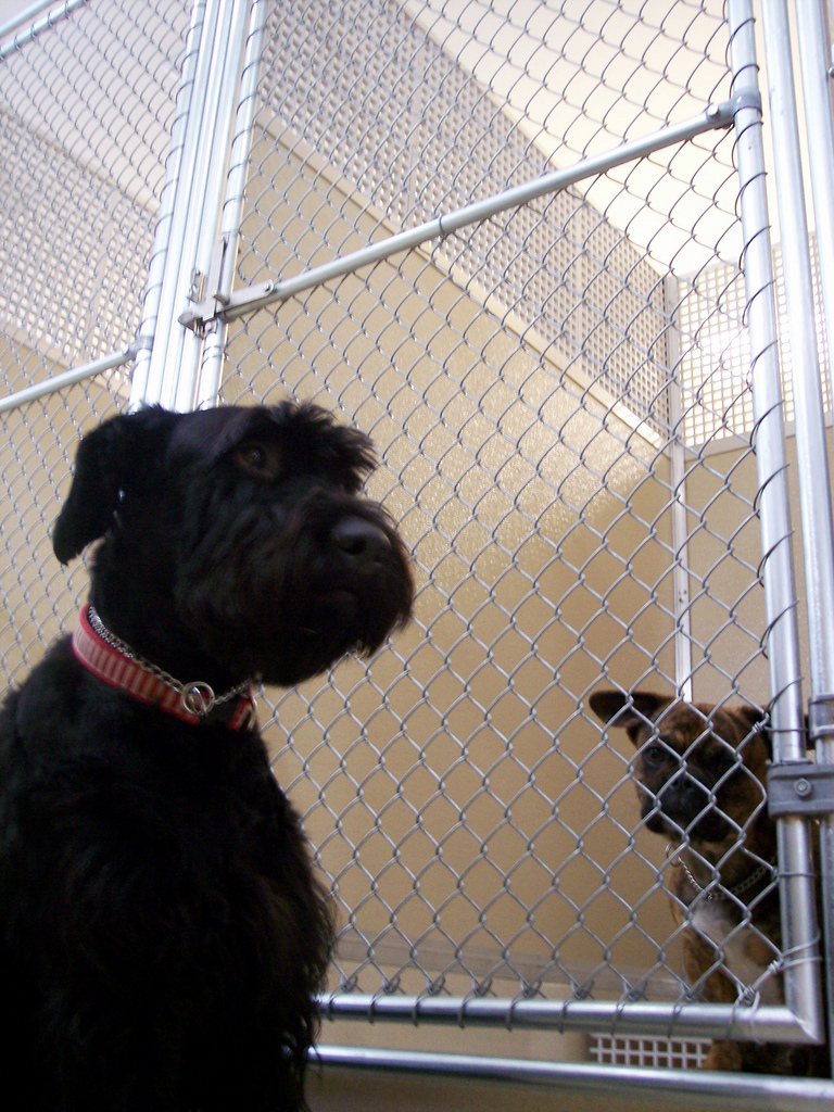 Our Mason kennels are designed to provide comfort and privacy, and the ultimate luxury in pet boarding! Each airy and spacious kennel comes complete with raised sleep area and daily maid service. Two daily playtimes and walks around the block are included with trainings and boardings. You can choose from a variety of one-on-one activities depending on your pet. From active play like ball catching to a peaceful, easy stroll or cuddle, each guest is given undivided personal attention. And, of course, lots of petting is always included.